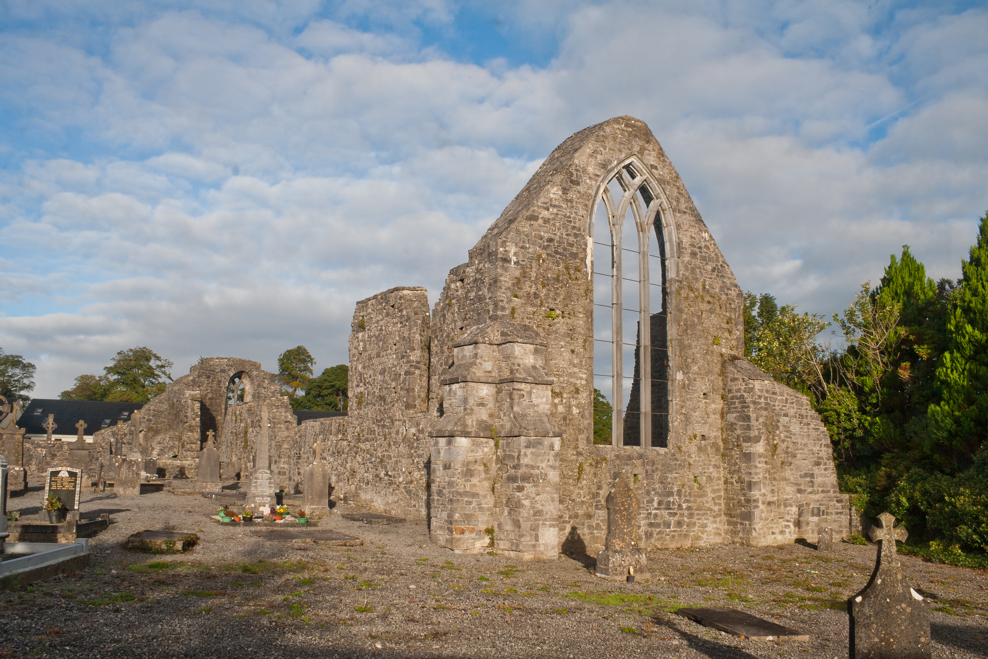 South-east view of Ballinrobe Priory in the morning sun.